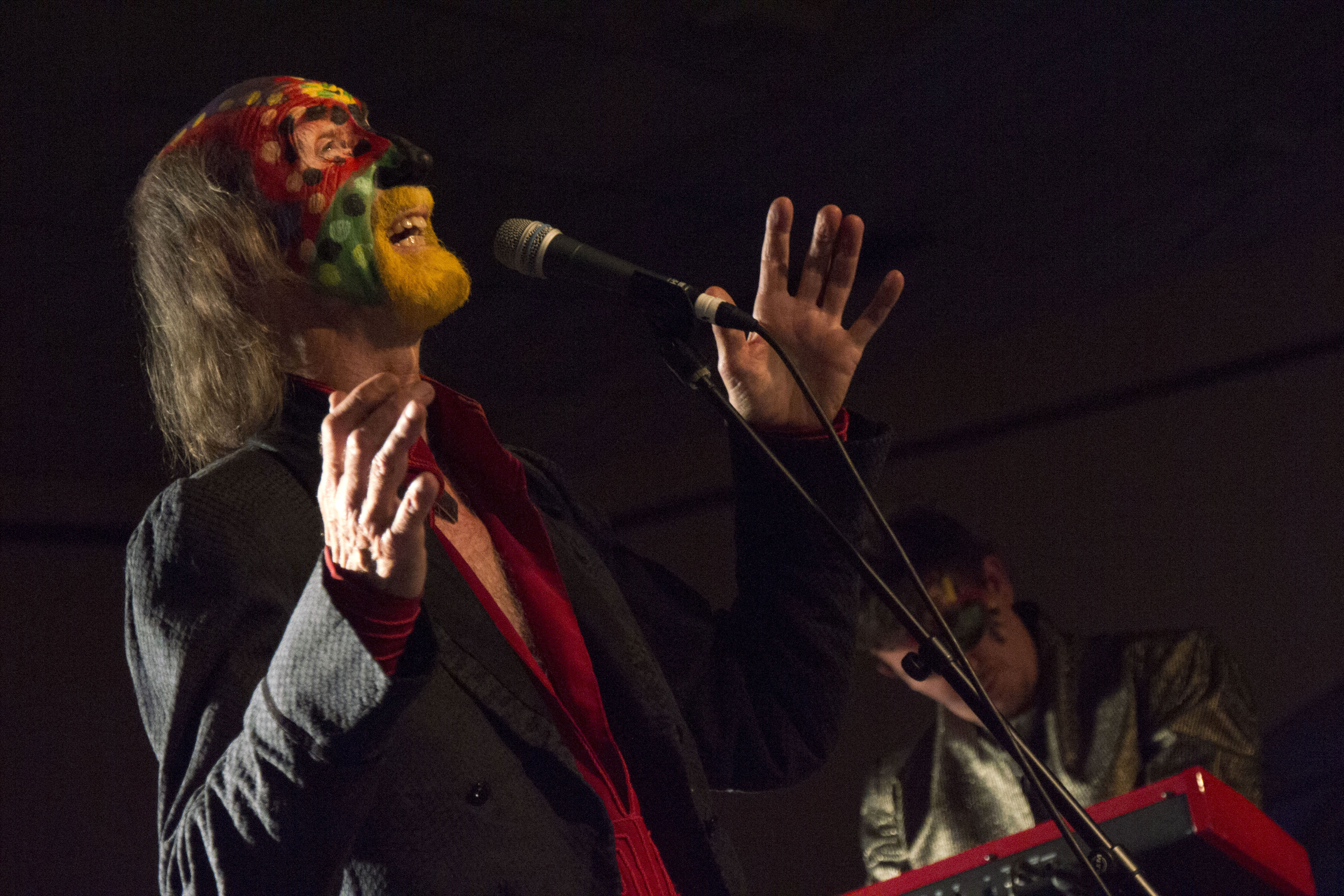 Musicport 2014